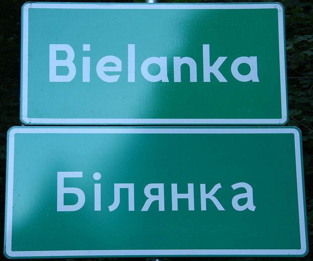 Bilingual polish road sign (znak E-17a:inhabited area), Bielanka, Poland.